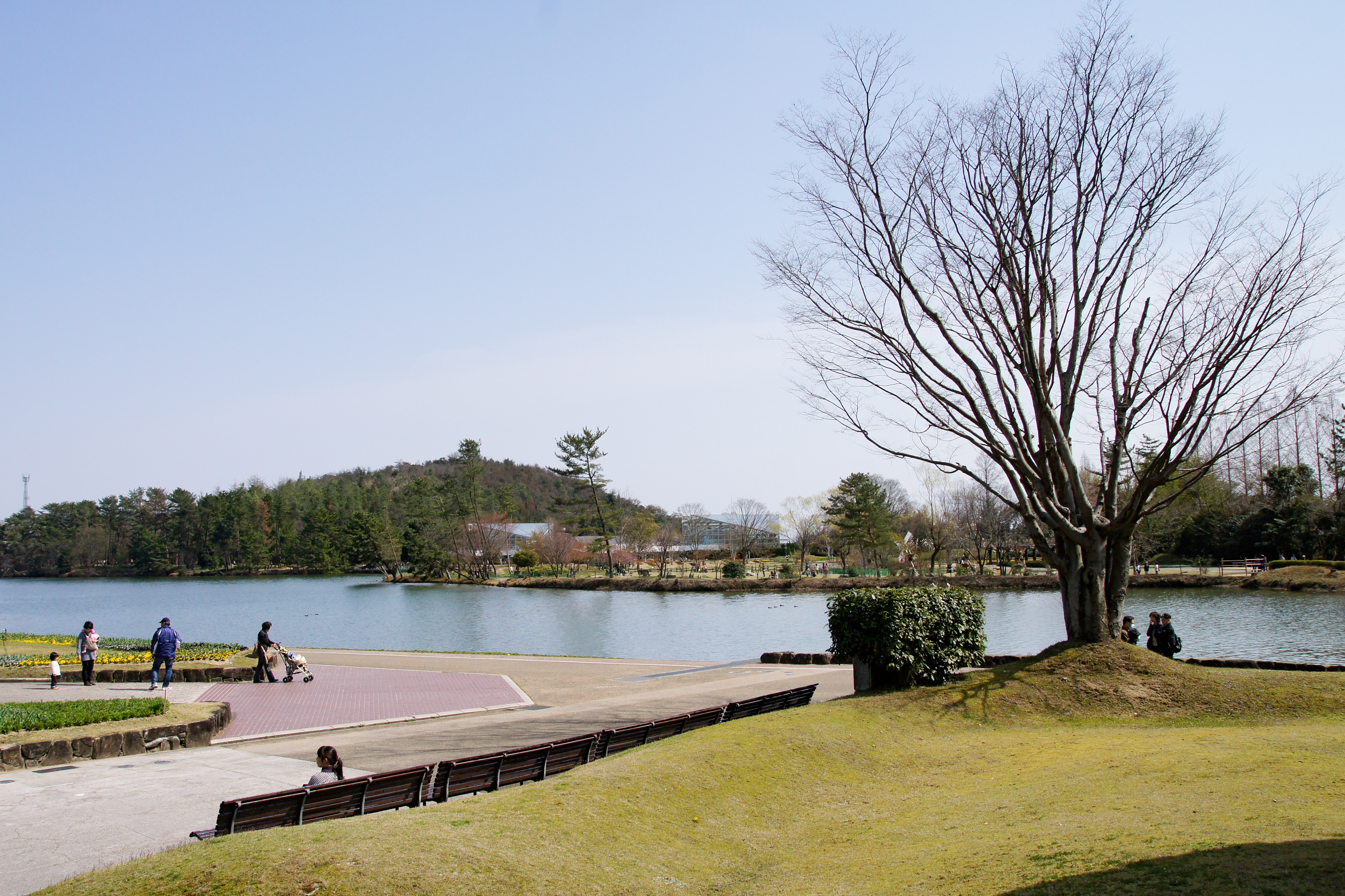 Hyogo Prefectural Flower Center in Kasai, Hyogo prefecture, Japan.